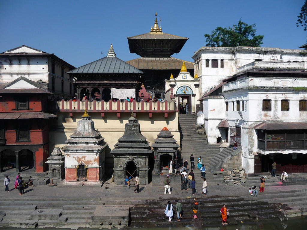 Pashupatinath, Nepal (Kathmandu Valley)